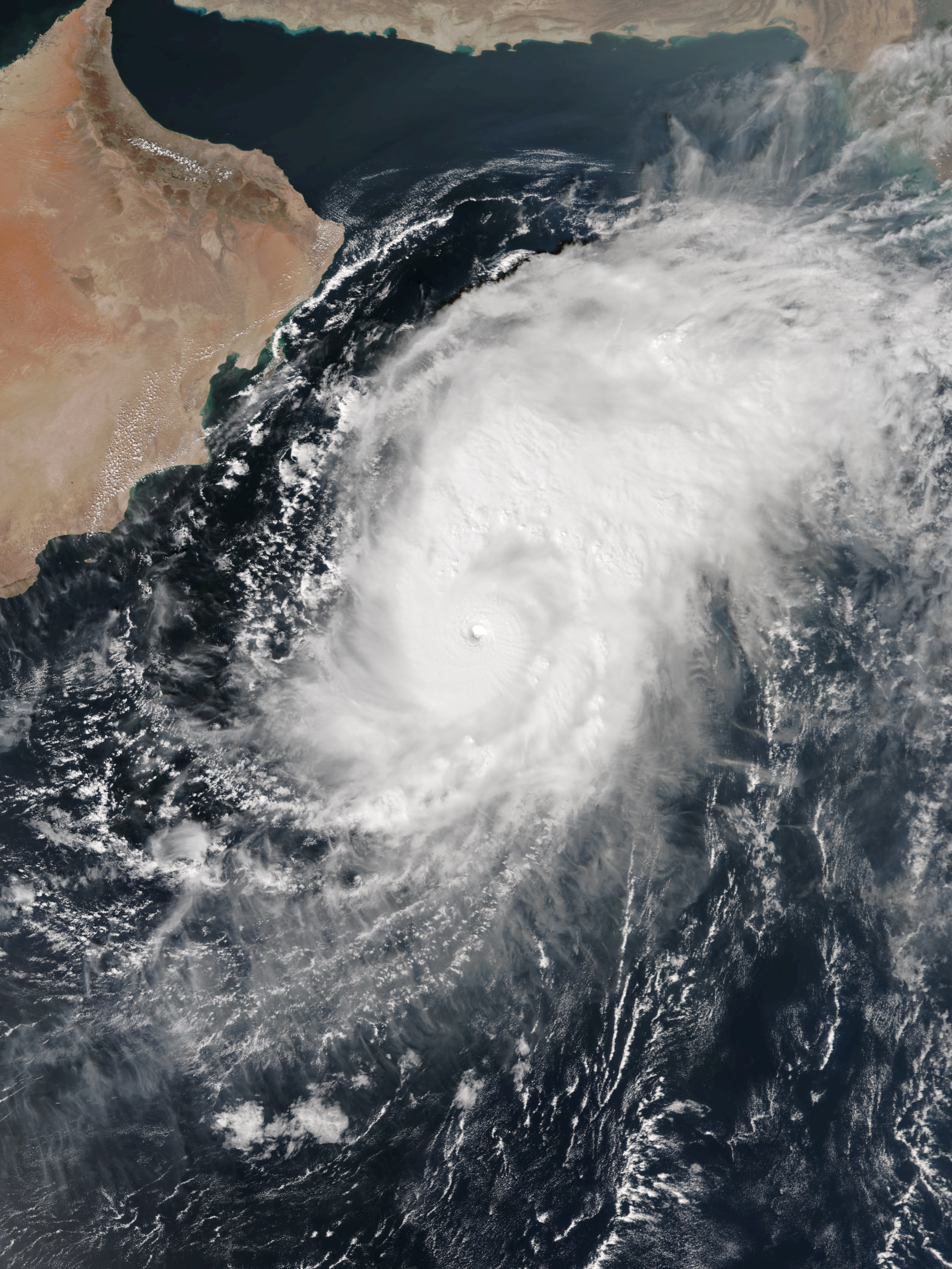 The Visible Infrared Imaging Radiometer Suite (VIIRS) sensor on Suomi-NPP captured this image of Very Severe Cyclonic Storm Nilofar shortly before peak intensity on October 28, 2014, at 09:39 Universal Time.